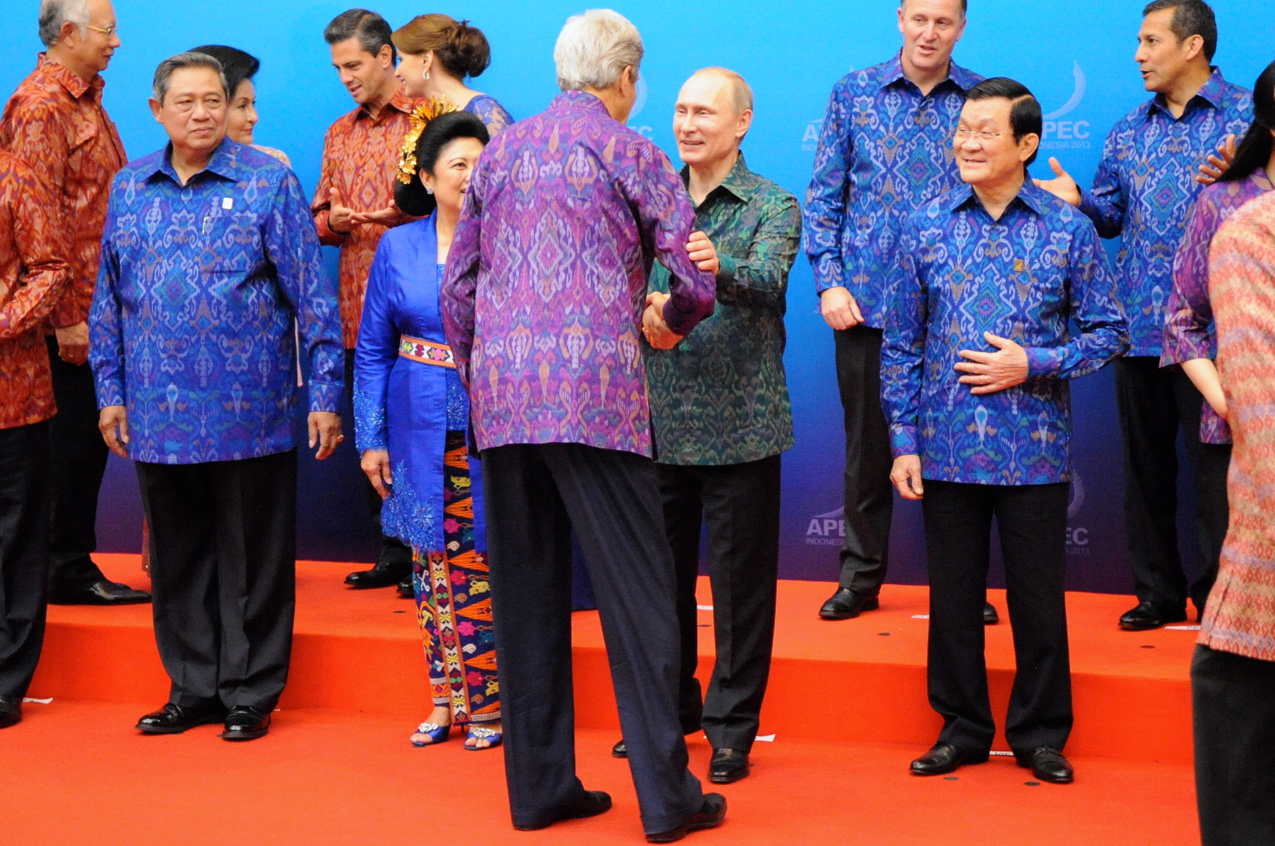 U.S. Secretary of State John Kerry, dressed in a traditional batik shirt, speaks with Russian President Vladimir Putin before the two join other heads of delegation for a family photo before the APEC Leaders Dinner on October 7, 2013. in Bali, Indonesia. [State Department photo / Public Domain]